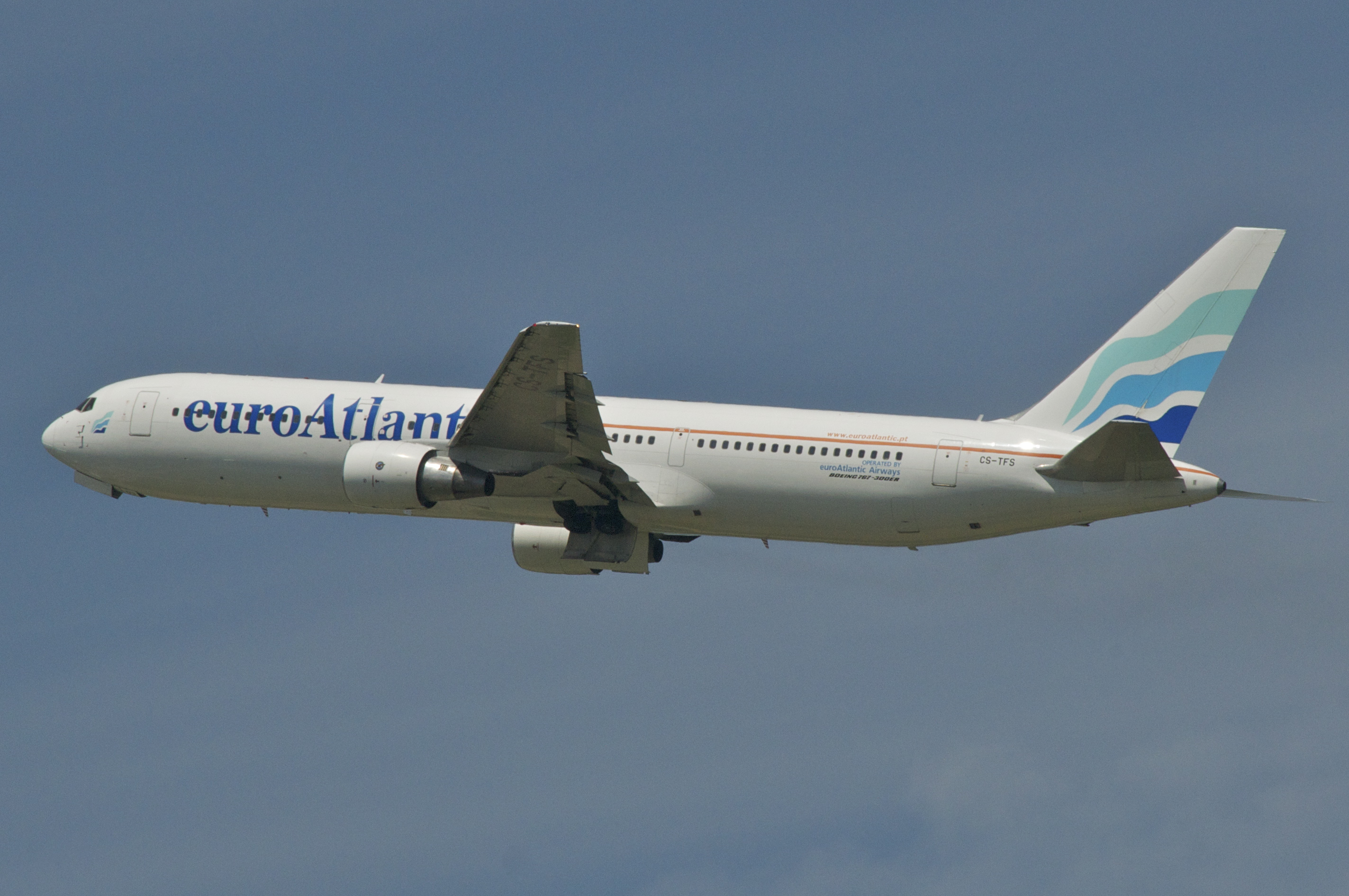 Departing on behalf of Air Berlin to Palma de Mallorca... This Boeing 767-3Y0 took its first flight on December 12, 1991...(c/n 25411/ 408) 16/01/1992 Transbrasil PT-TAF 02/06/1992 TAESA XA-SKY 01/05/1995 Air Europe Italy EI-CLR 25/04/1996 SAS SE-DKY 19/11/1997 AeroMexico XA-TJD 12/12/1997 AeroMexico XA-EDE 07/06/1999 GPA SE-DKY 07/07/1999 GPA EI-CLR 15/05/2000 TWA N640TW 02/12/2001 American Airlines N640TW parked 30/09/02 01/07/2003 Euro Atlantic Airways PP-VTC 02/07/2003 Varig PP-VTC leased from Euroatlantic 26/11/2008 Euro Atlantic Airways CS-TFS 06/09/2009 STP Airways S9-DBW 15/10/2009 Euro Atlantic Airways CS-TFS 14/06/2011 Sunwing Airlines CS-TFS leased from Euro Atlantic Airways 13/09/2011 Euro Atlantic Airways CS-TFS 13/06/2012 Sunwing Airlines CS-TFS leaswd from Euro Atlantic Airways 11/09/2012 Euro Atlantic Airways CS-TFS 20/01/2013 Cubana CS-TFS leased from Euro Atlantic Airways 01/05/2013 Euro Atlantic Airways CS-TFS